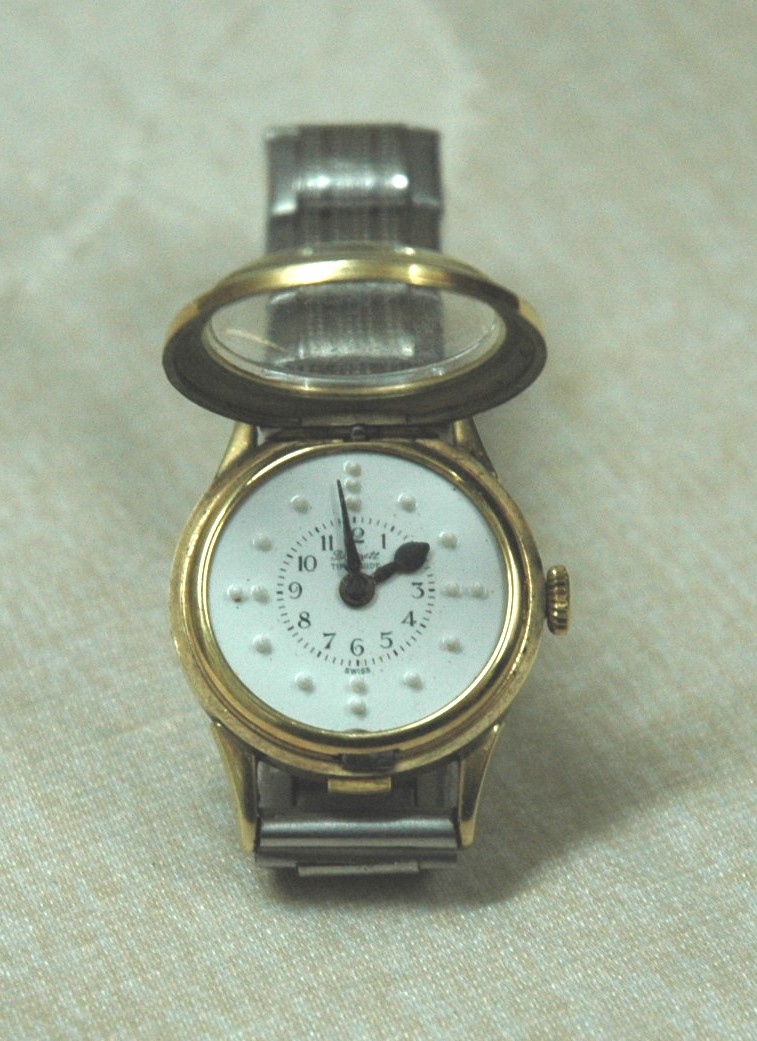 Watch for the blind. With loving memory of my great-grandfather Ephraim Rotter, who was blinded in the Holocaust and to whom this watch belonged.